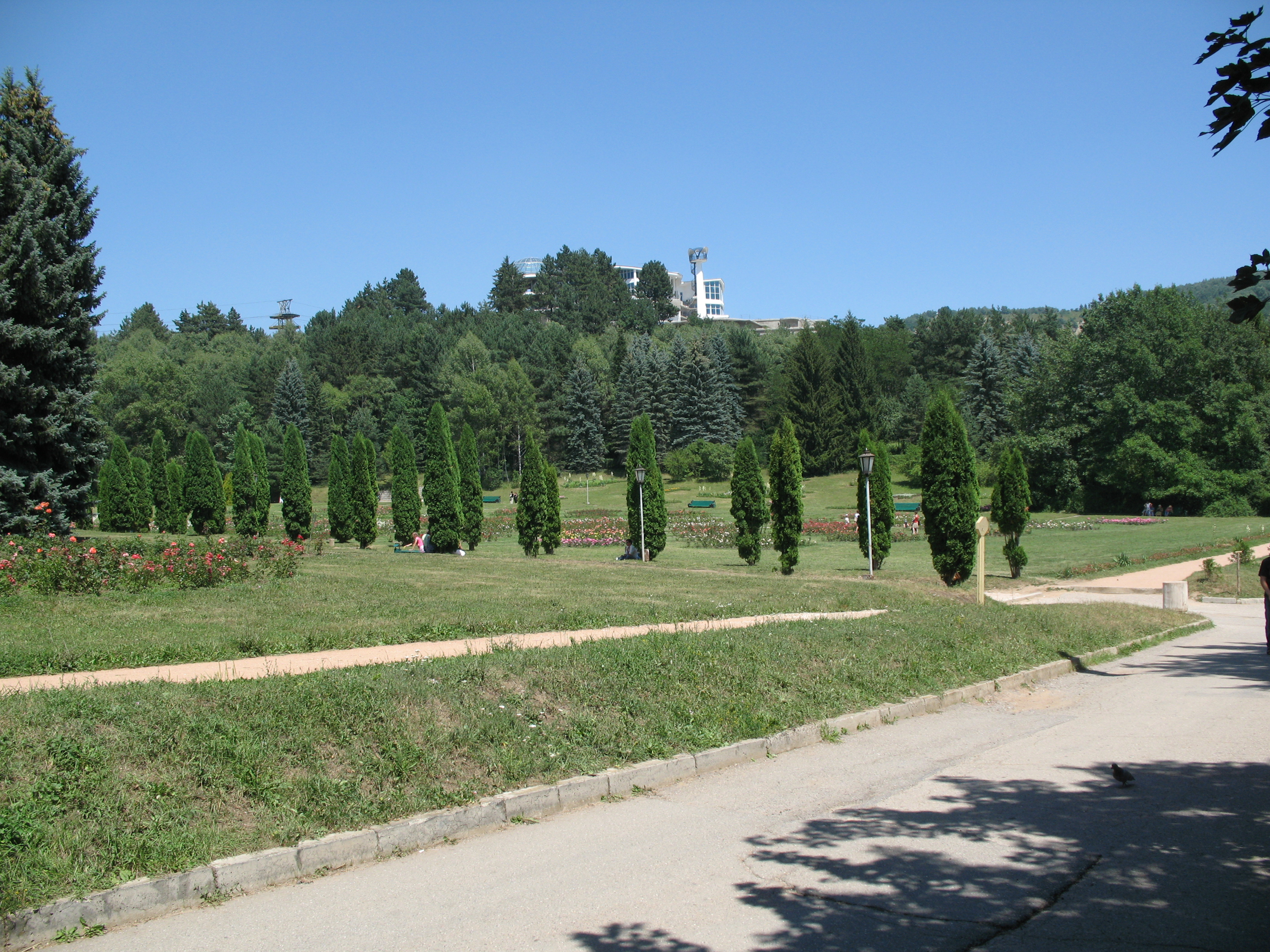 Valley Of Roses Kislovodsk